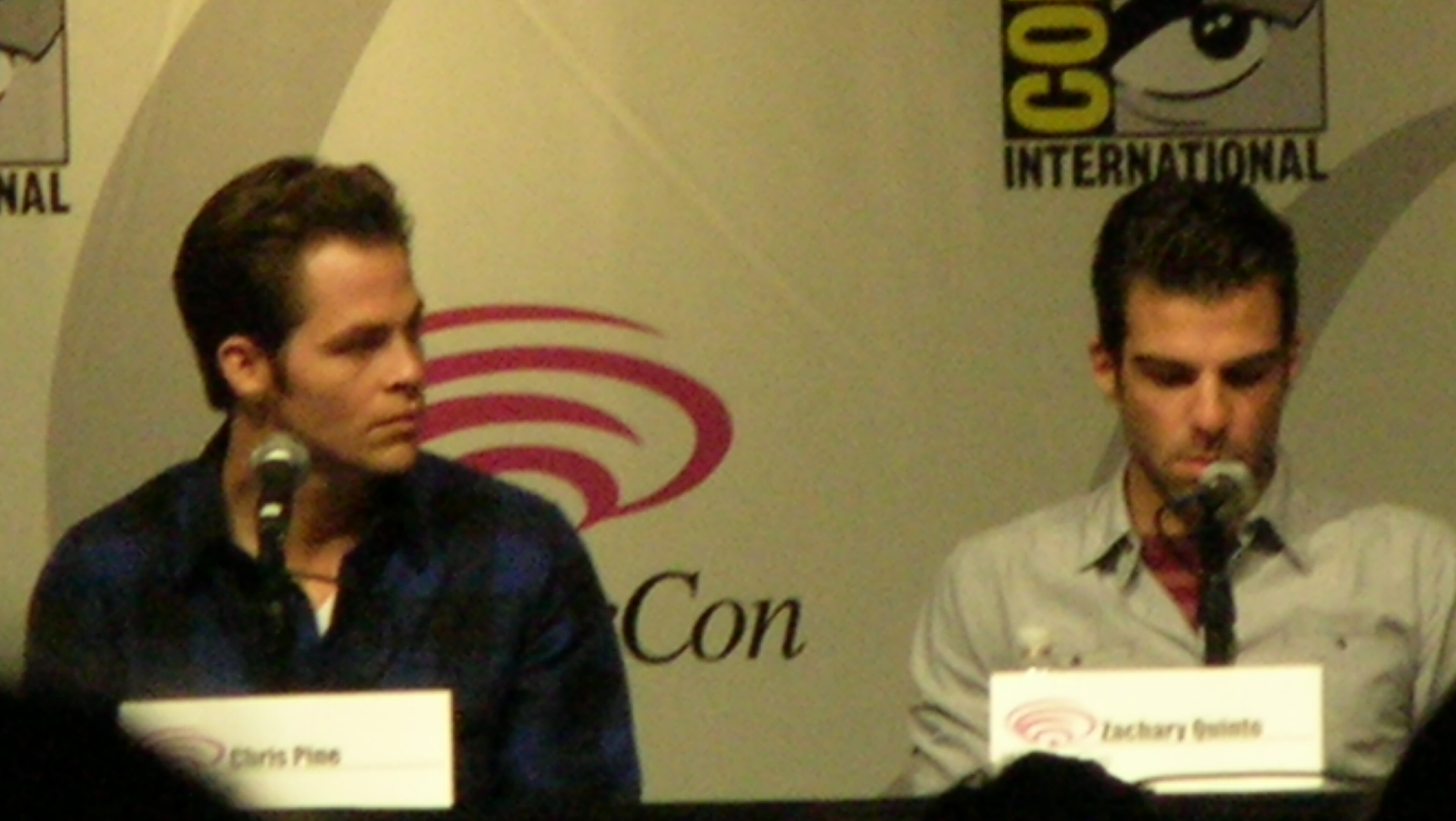 Chris Pine and Zachary Quinto participating in a Star Trek panel at WonderCon 2009.